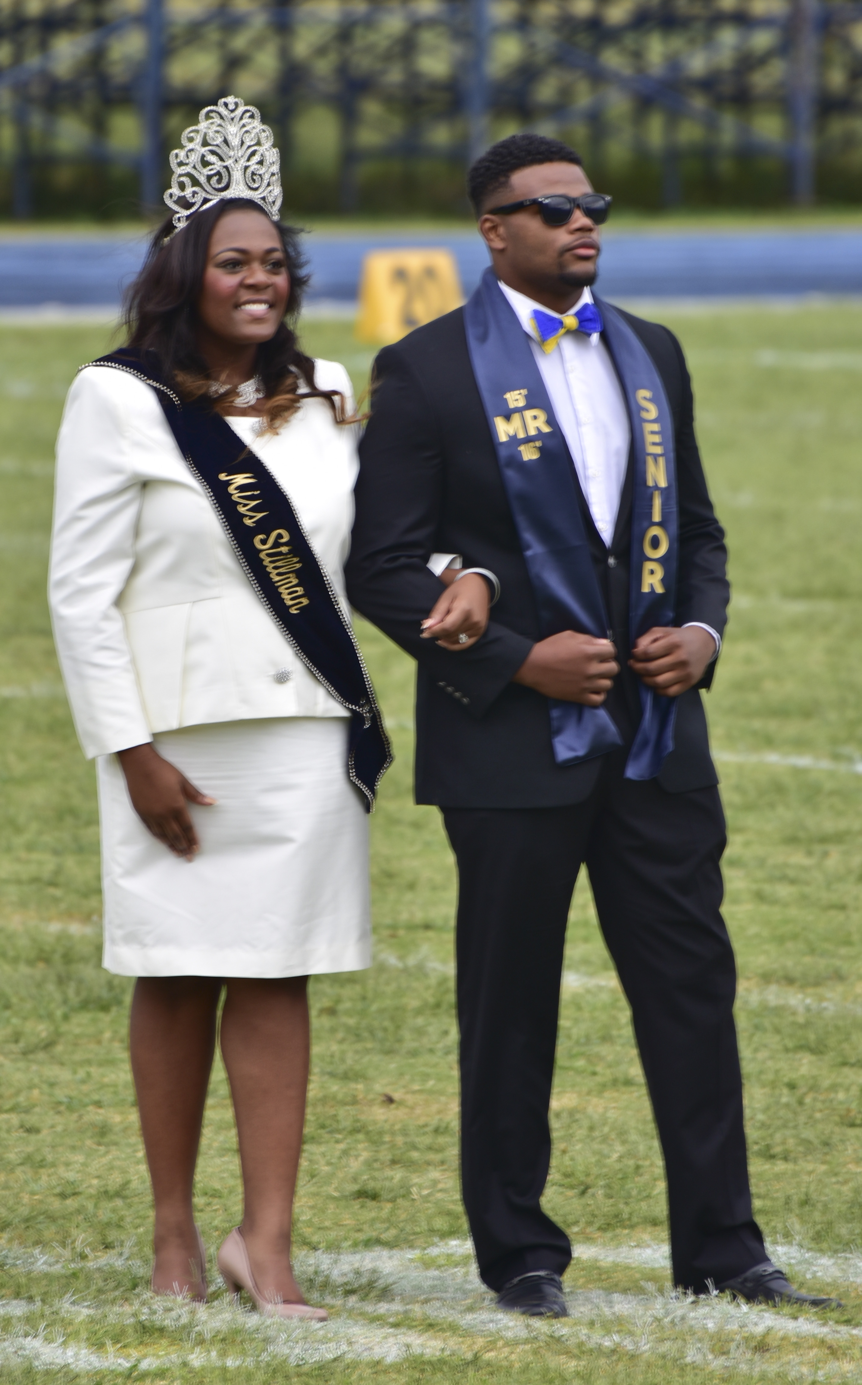 Miss. Stillman College 2015 (Campus Queen)